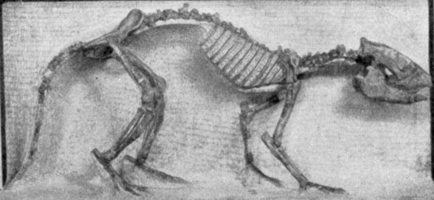 Meniscotherium skeleton.